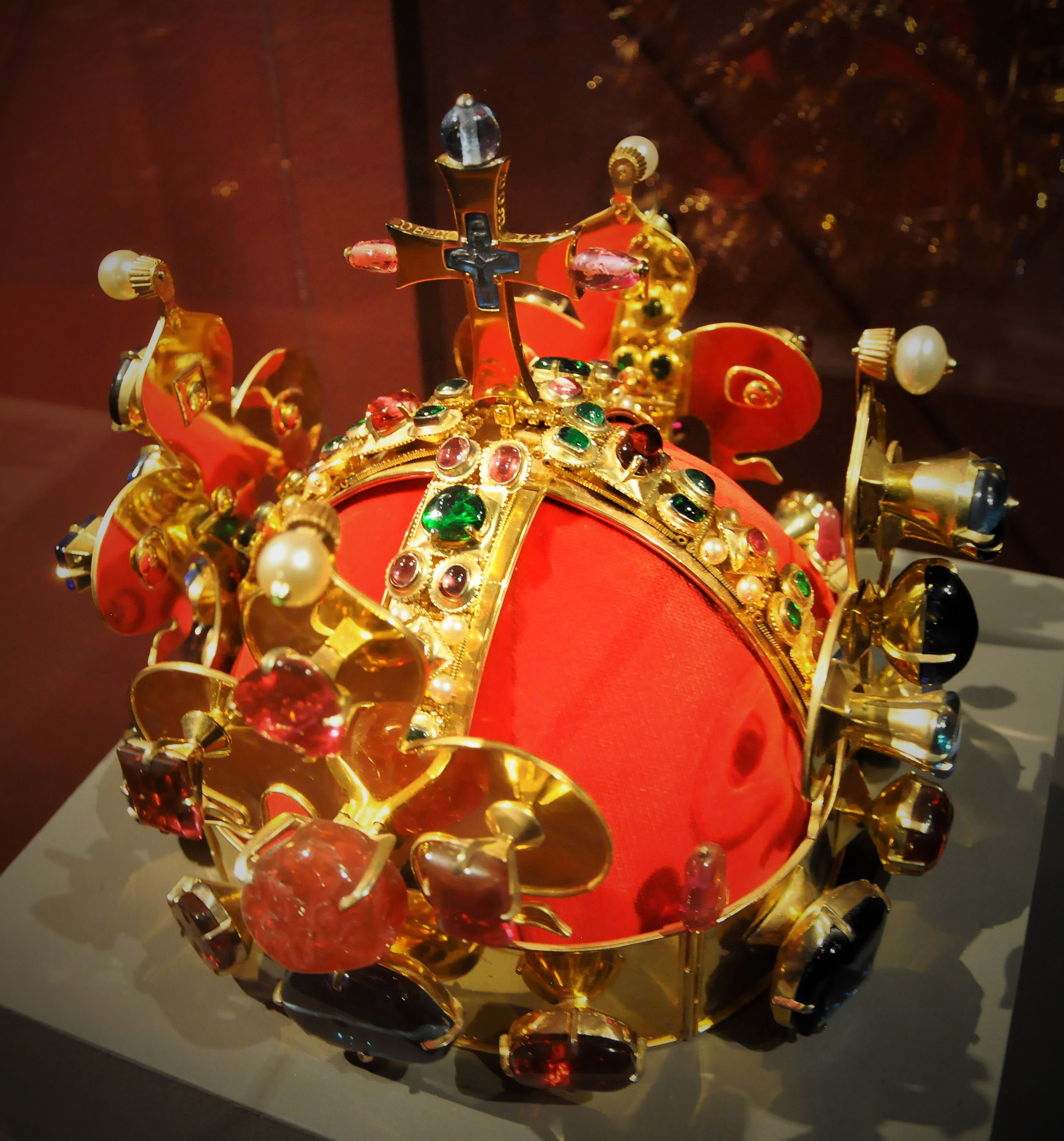 Copy of the Crown of Saint Wenceslas from the Carlstein Castle, original made in 1347, copy in the 1998.